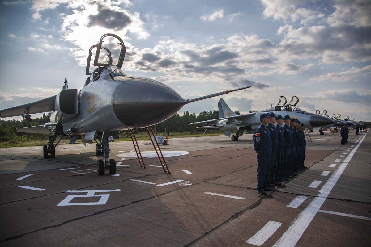 Peaceful Mission 2018. Xian JH-7A